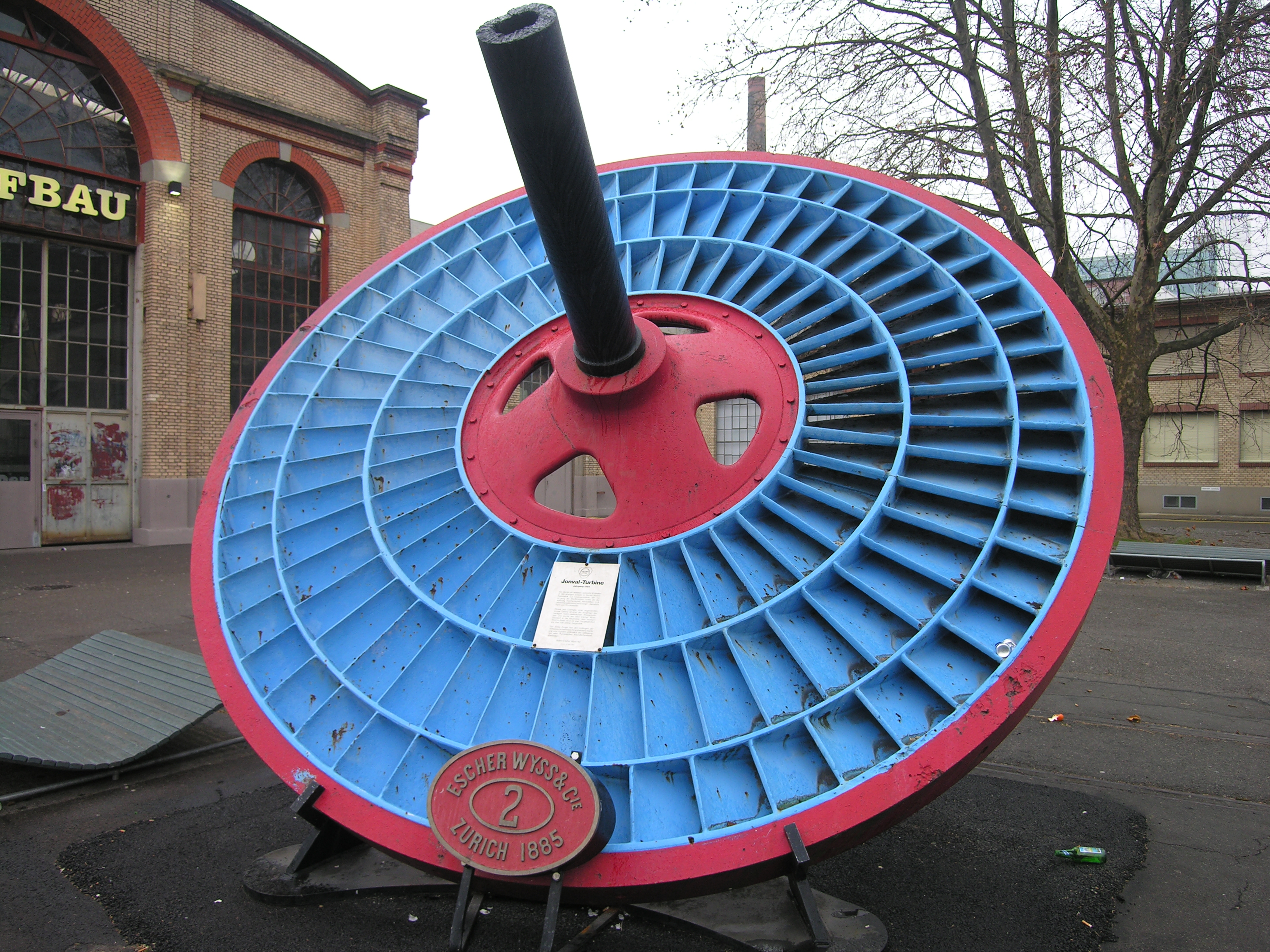 Jonval turbine, built in 1885. It was in service for about 100 years, producing energy in the form of the pressurized water. In total, 17 such turbines were operating in Geneva pump station. The turbine is now exposed in Giesereistrasse 5, 8005, Zurich, Switzerland.